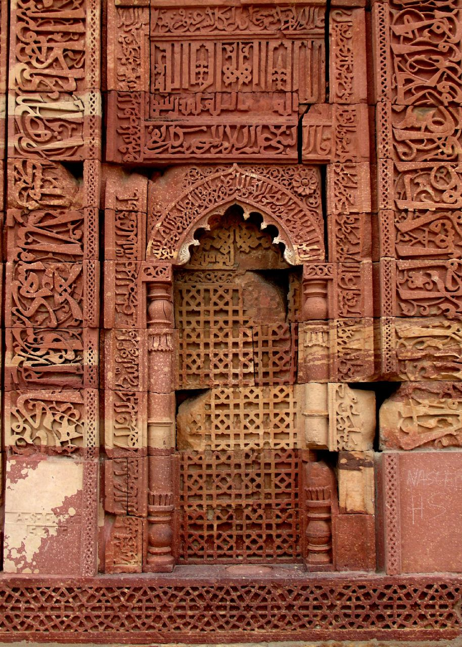 Calligraphy on the walls of a monument in the Qutb minar complex. Probably Alai Gate, aka Alai Darwaza.